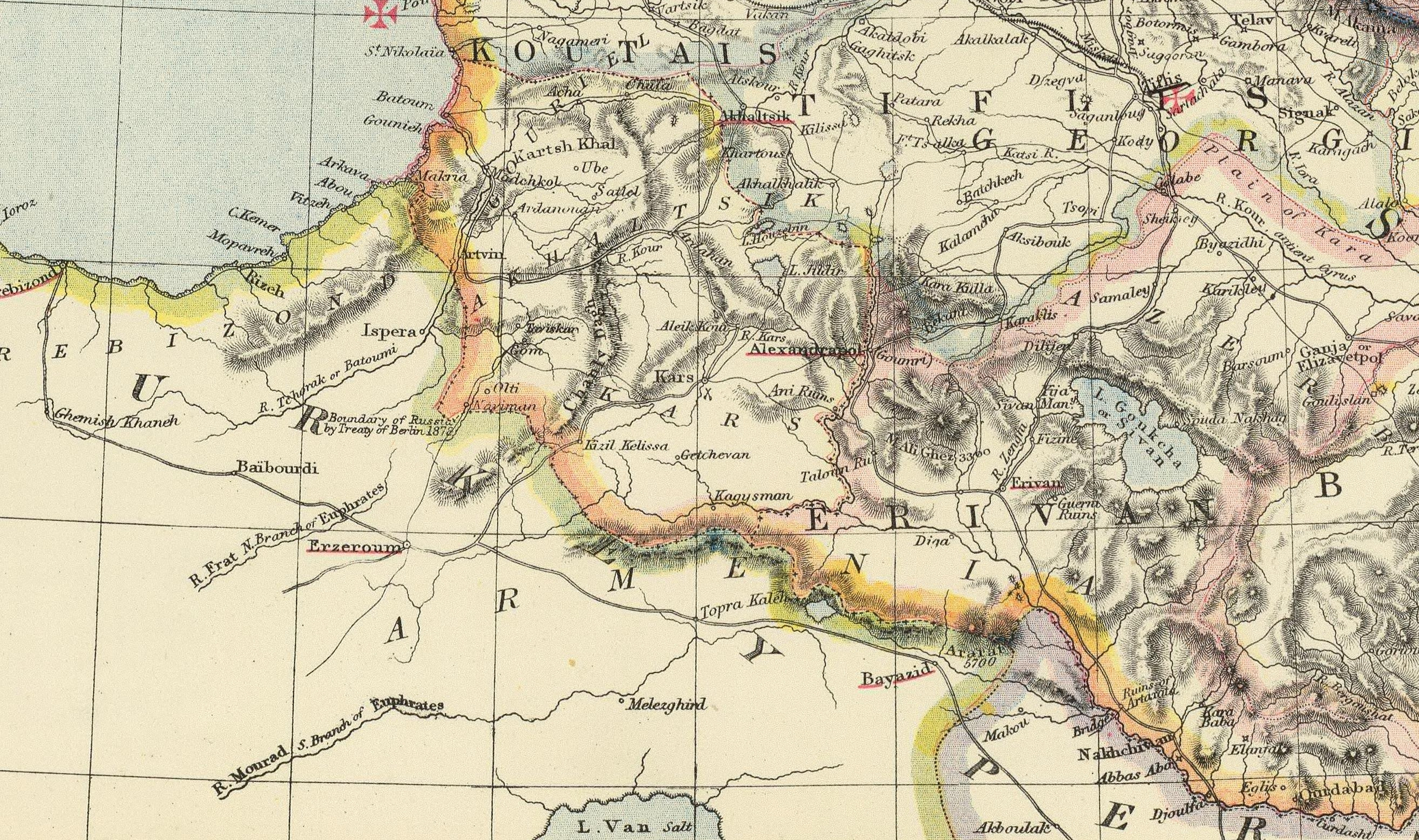 An 1883 map including Kars Oblast and adjacent provinces of Russian and Ottoman Empires. Russia. No. 9. Letts's popular atlas. Letts, Son & Co. Limited, London. (1883)